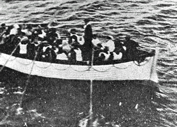 An unknow Boat of the Titanic aproching Carpathia